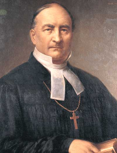 The protestant theologian Sixt Carl von Kapff (1805-1879)